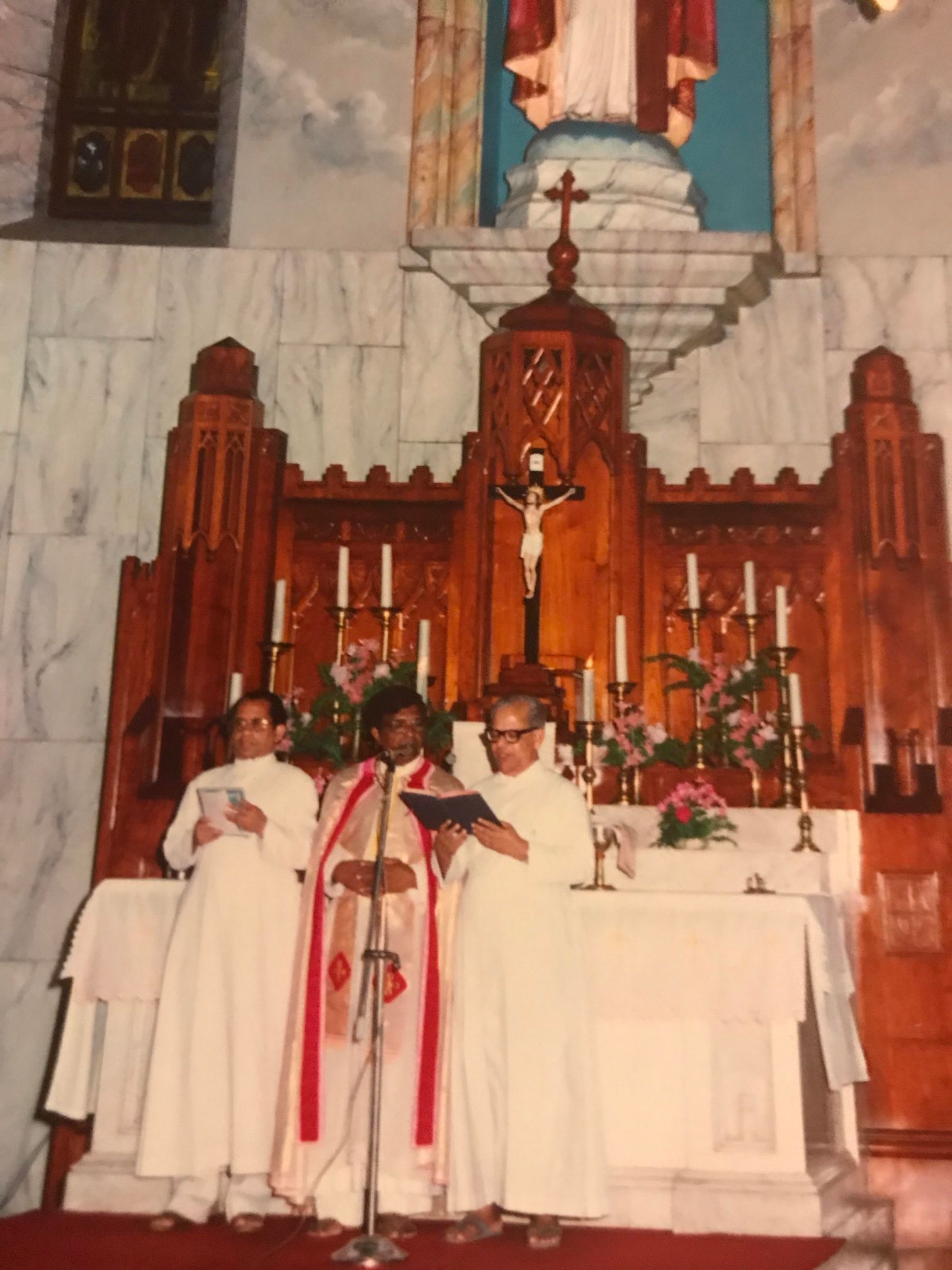 Knanaya priests chant Bar Maryam, an ancient East Syriac chant distinct to the Knanaya Christians. The shot was taken during a Knanaya wedding in the 1980's.